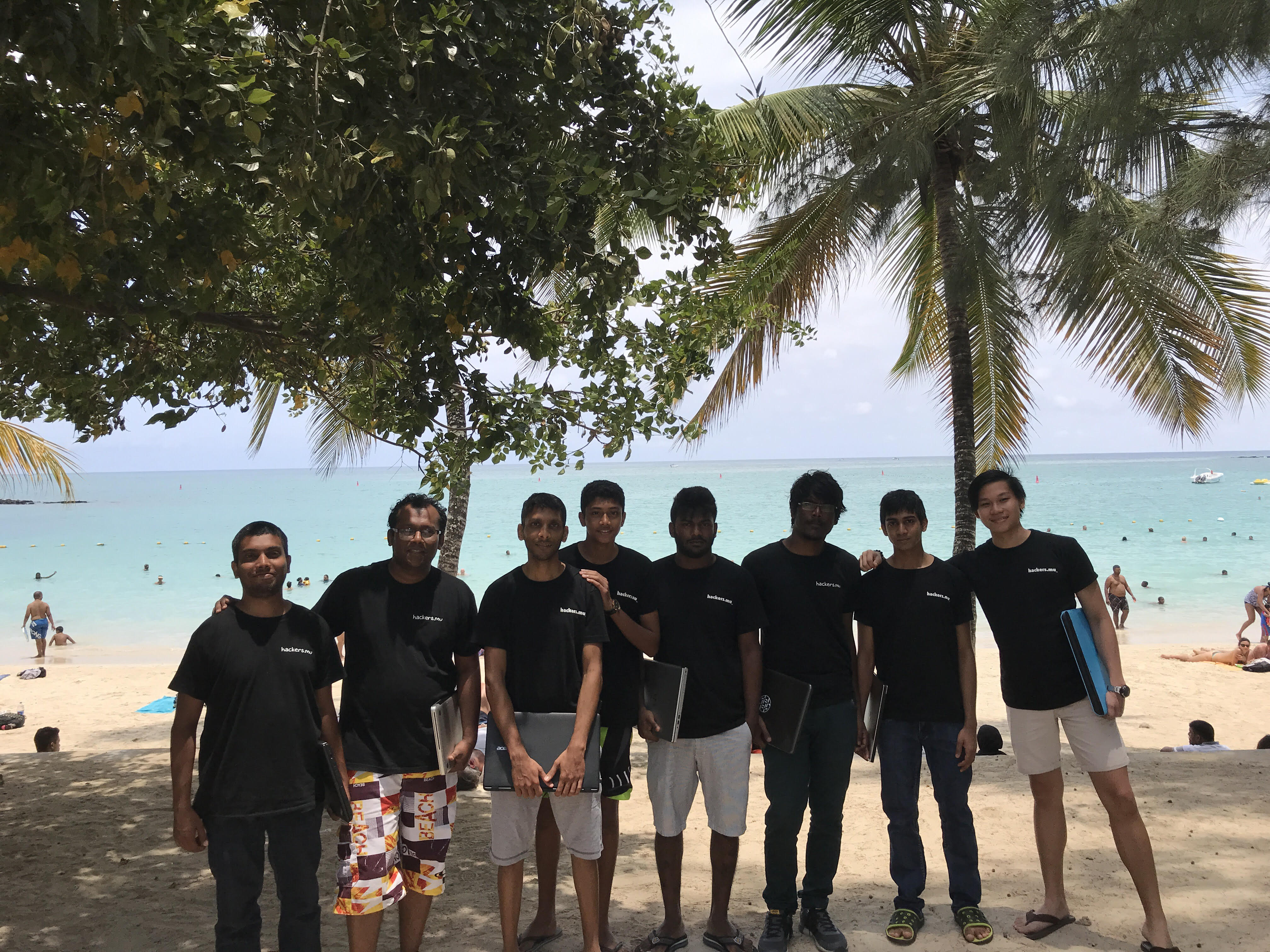 During the IETF 100 Hackathon, hackers.mu joined forces with the TLS Group to adapt as many applications to use TLS 1.3. It marked a historic moment for Mauritius. More information here